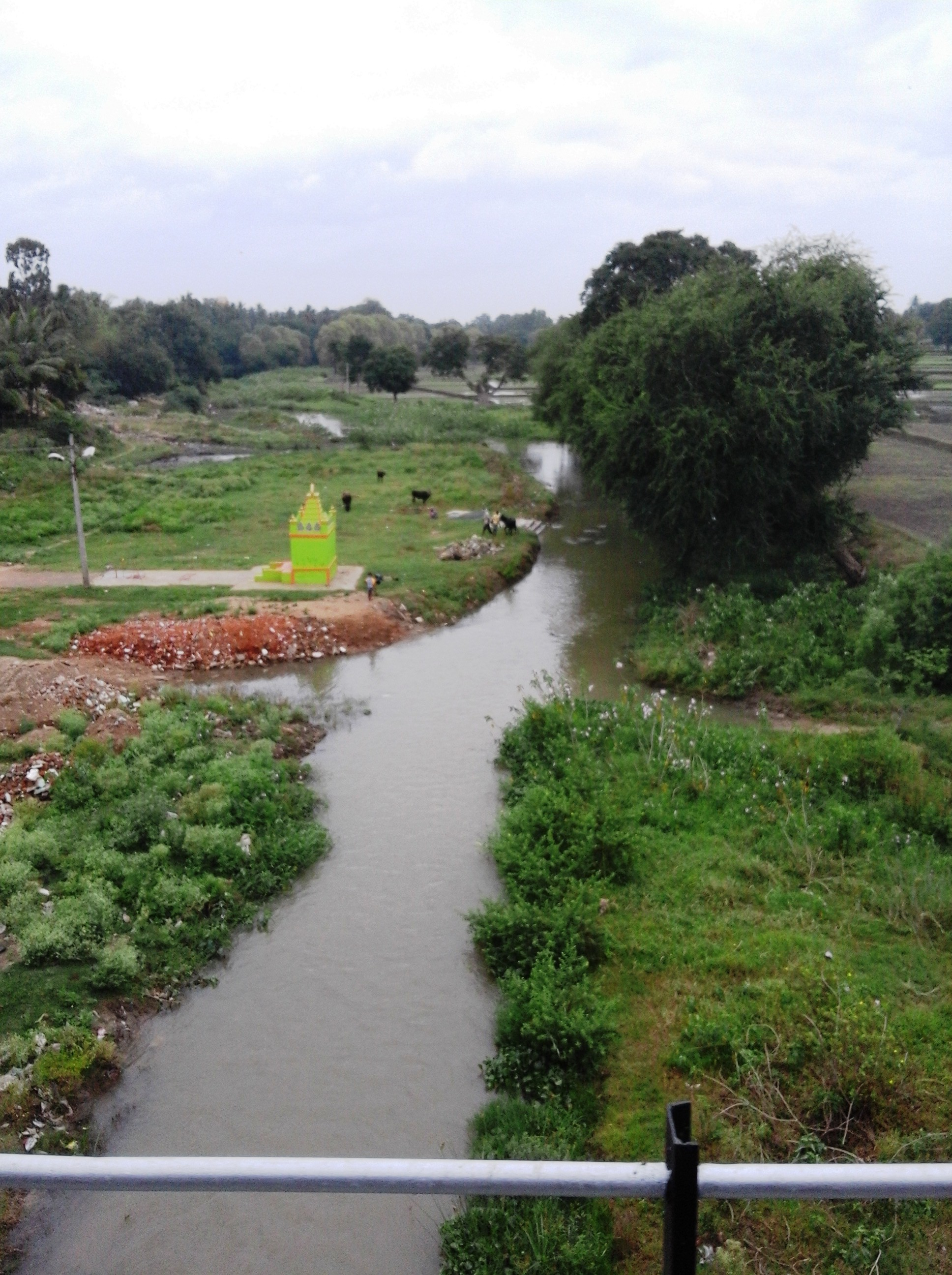 Mysore district, Karnataka state, India.